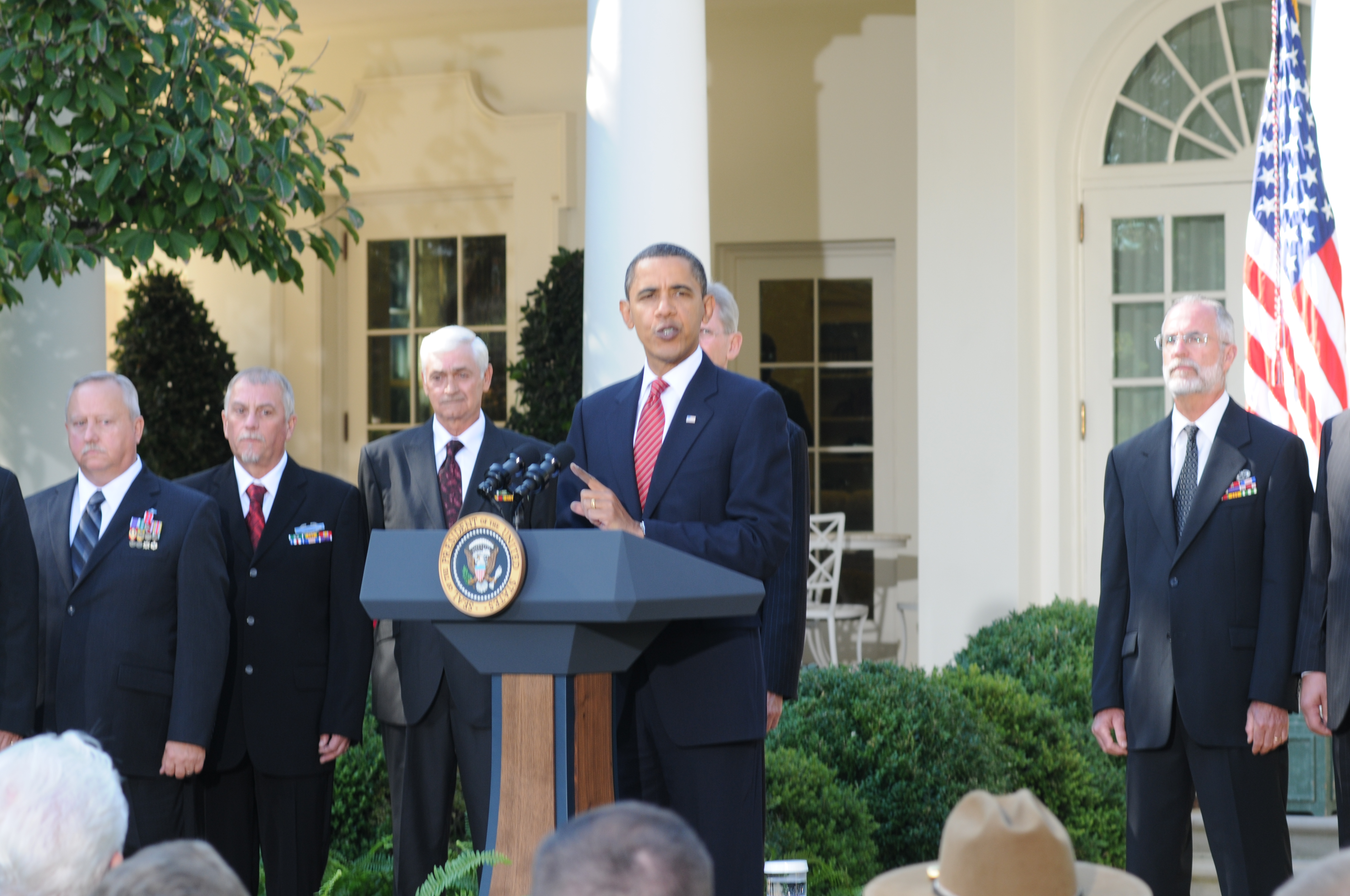 Veterans from Alpha Troop, 1st Squadron, 11th Armored Cavalry Regiment, listen to President Obama speak at a White House ceremony Tuesday. Their unit received the Presidential Unit Citation for heroism during the Vietnam War while rescuing members of Charlie Company, 1st Cavalry Division, who were trapped by enemy fighters.